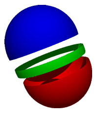 Spliting a sphere in 3 closed parts implies that at least one part has two antipodal points.